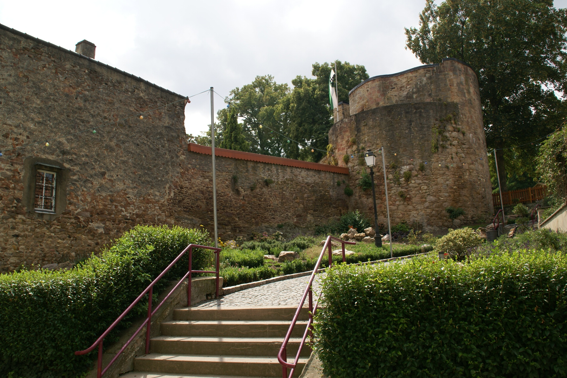 Prison Tower at Kirchheimbolanden, Germany